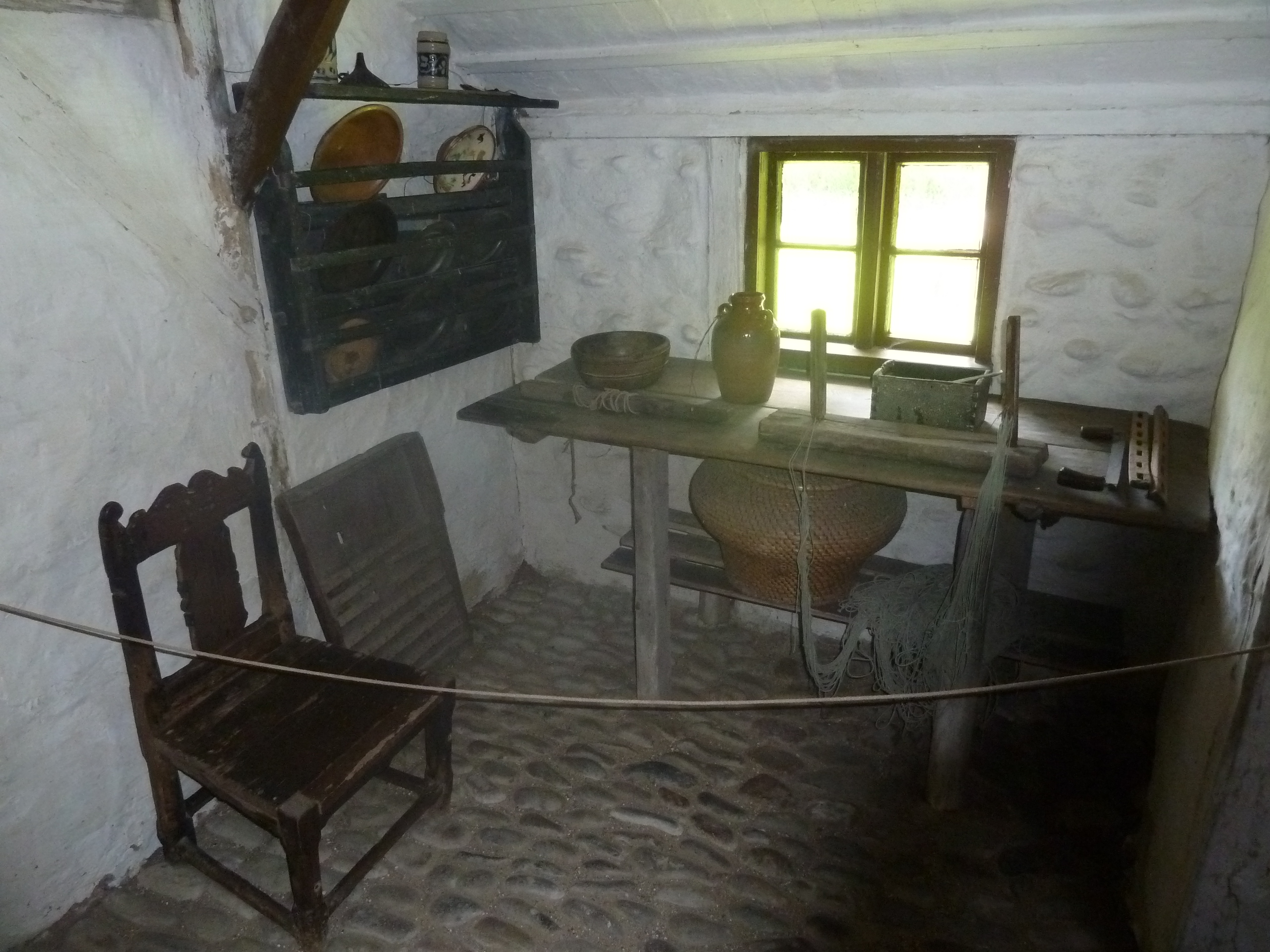 Fisherman's house from Agger, now on Frilandsmuseet (the open air museum) north of Copenhagen.